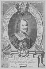 Johann Krane (Johannes de Crane)